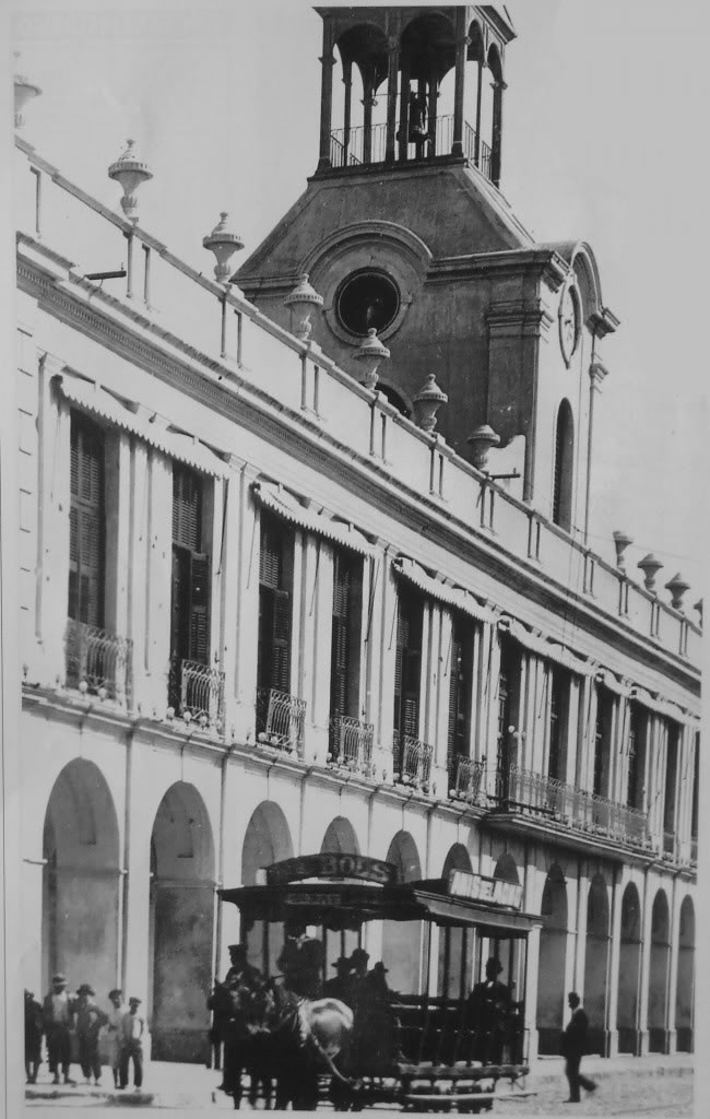 Cabildo in the late 19th century with its now-defunct central tower. Cordoba, Argentina.